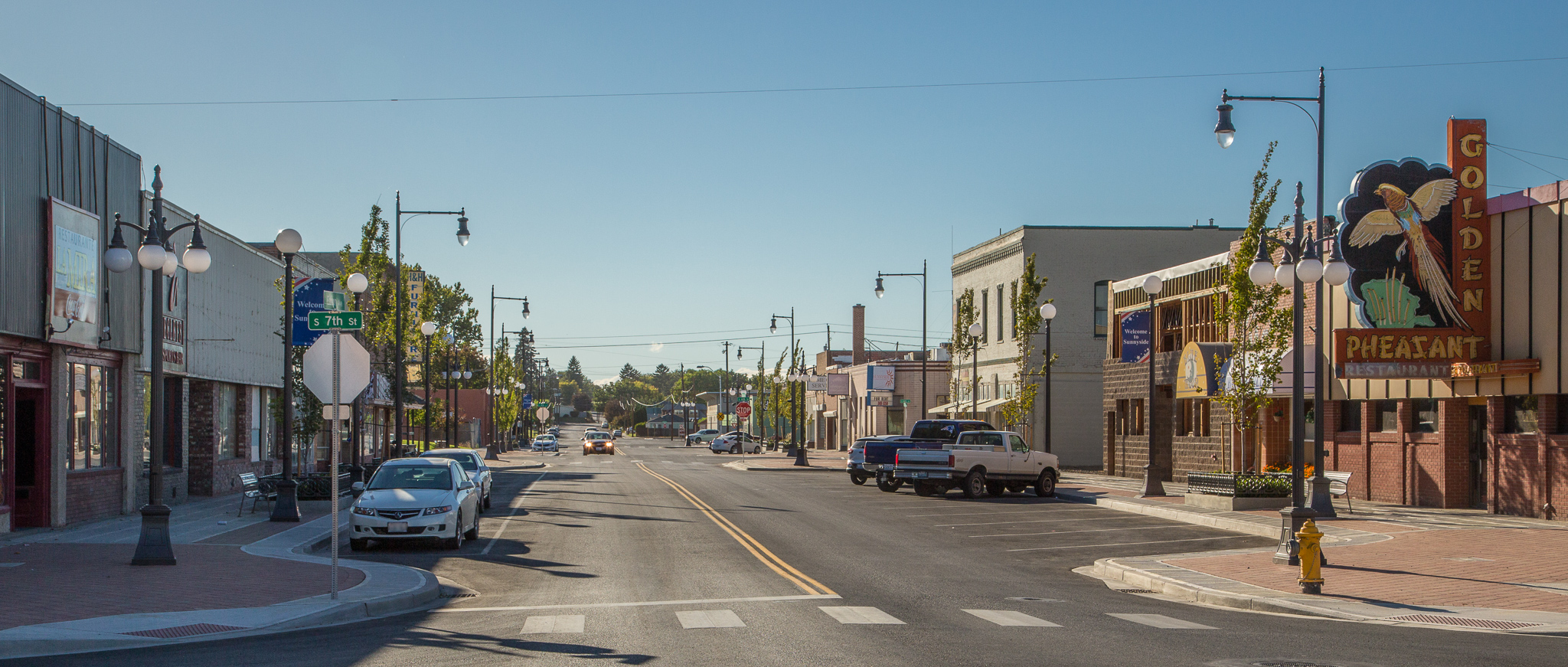 Edison Ave., Sunnyside, Washington